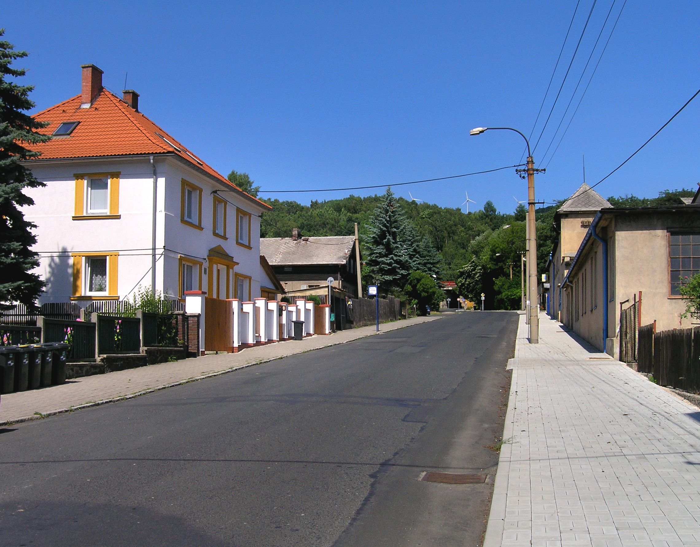 North part of Verneřice, part of Hrob town, Czech Republic